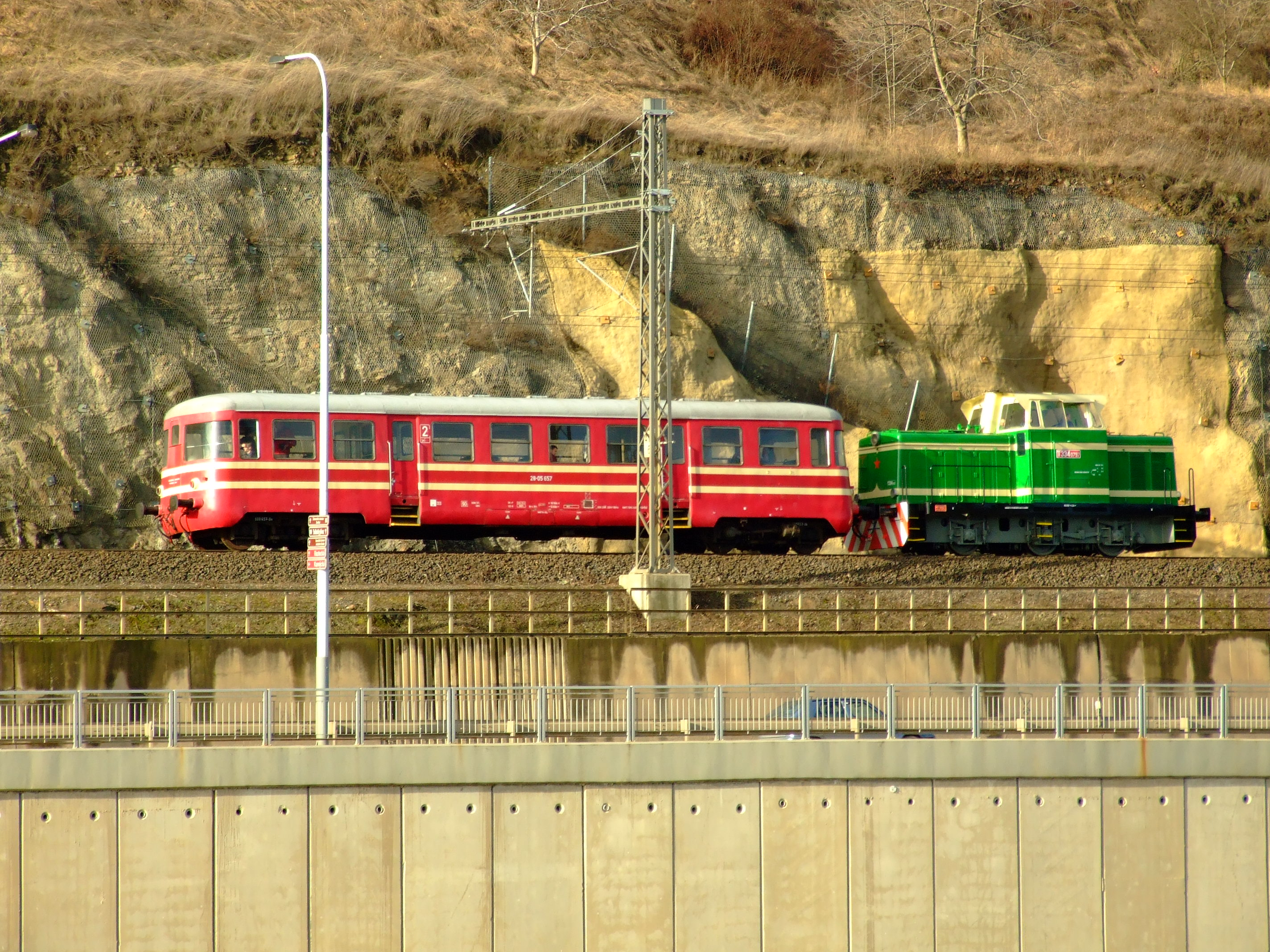 A train in Zámky near Bohnice and Sedlec, Northern part of Prague, CZ. Vltava can be seen in the foreground